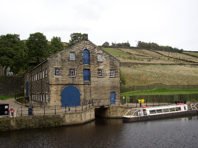 Canal Warehouse, Tunnel End, Marsden. This 18C building was used for the storage of goods brought up the canal and waiting to be transported over the hill by road. It then became a maintenance depôt and now houses the Standedge Visitor Centre.